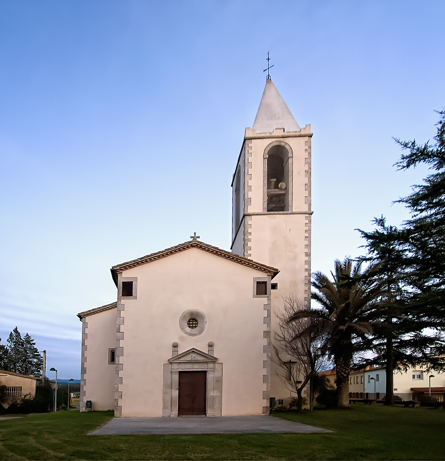 Sant Quirze church (Campllonch, Catalonia, Spain)